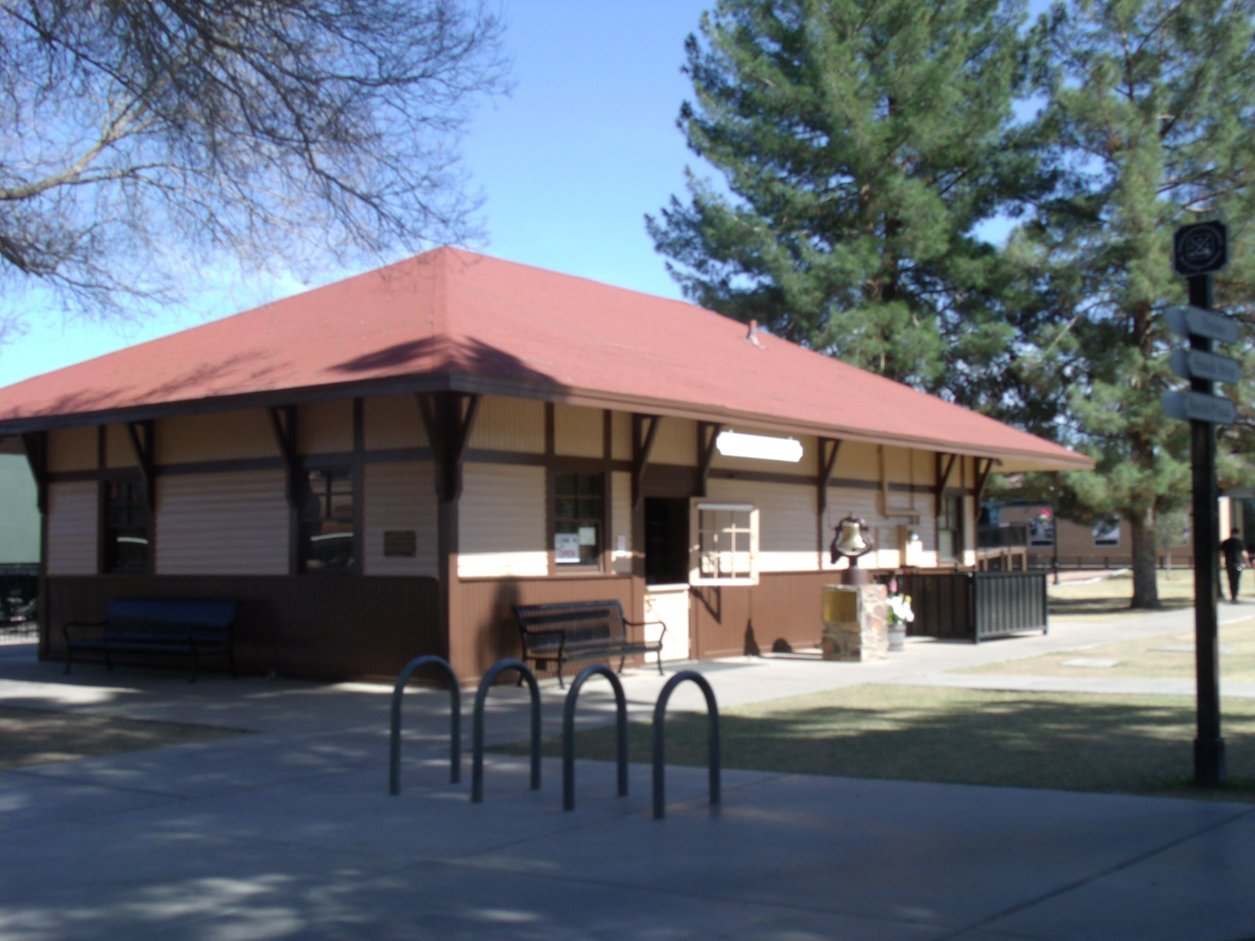 Original Historic Peoria (Arizona) Railroad Depot built in 1895 in Peoria, Az., was dismantled and rebuilt at the park McCormick-Stillman Railroad Park in Scottsadle, Az.